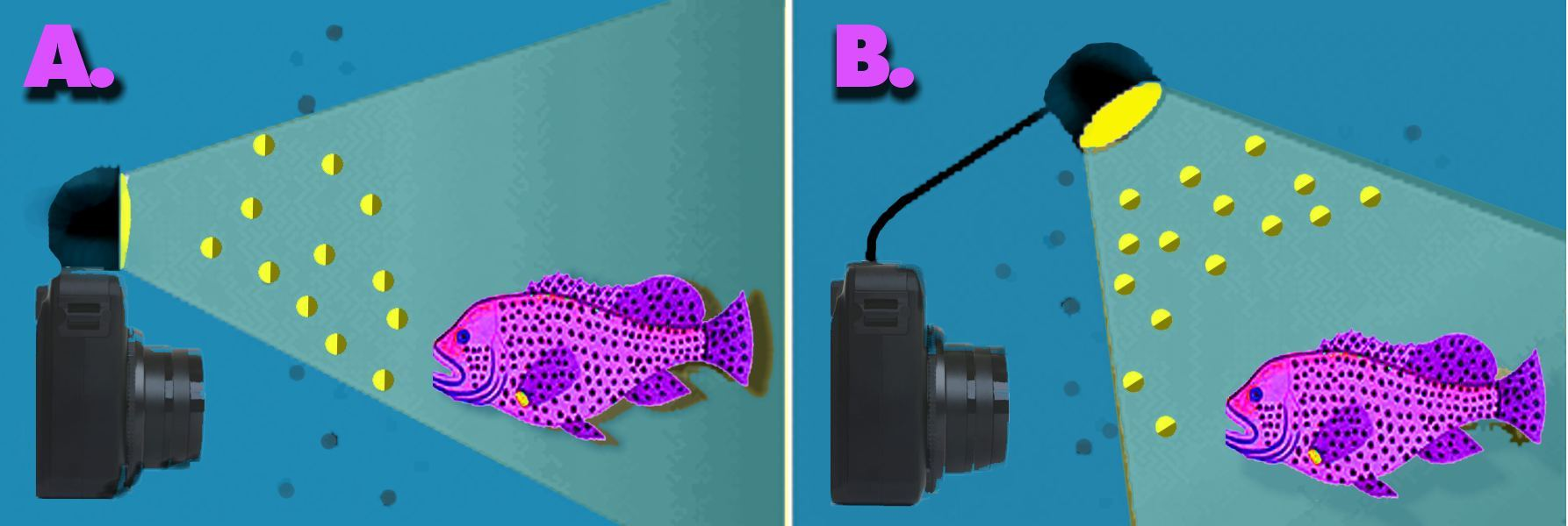 Creating or avoiding photographic orbs